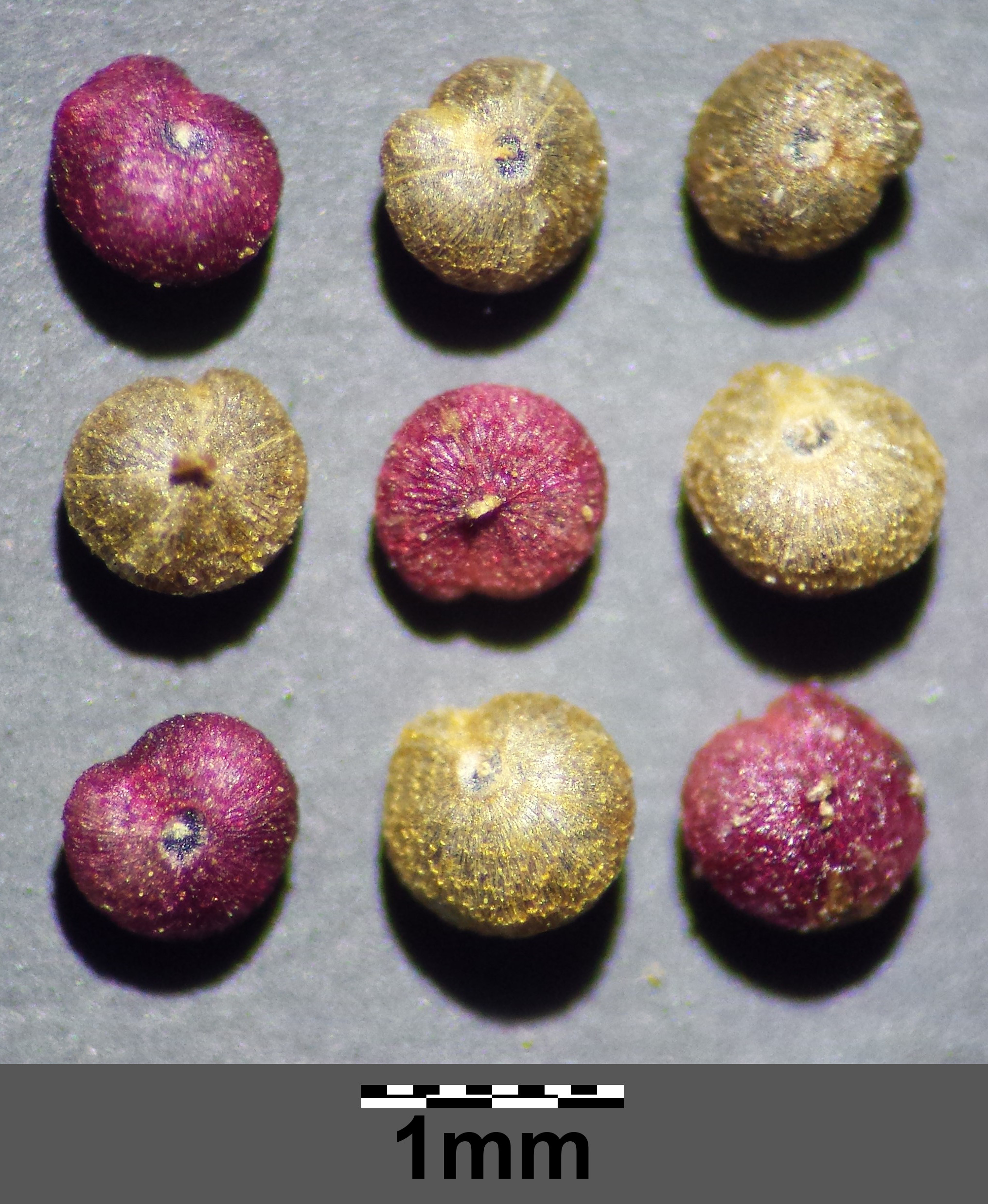 Seeds Taxonym: Chenopodium polyspermum ss Fischer et al. EfÖLS 2008 ISBN 978-3-85474-187-9 Location: Unterschleißheim, district München, Bavaria, Germany - ca. 473 m a.s.l. (leg.: 2015-10-08) Habitat: ruderal area